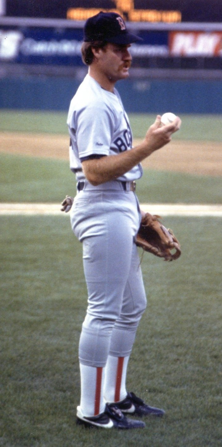 Wade Boggs in pre game warmups at Baltimore's Memorial stadium in 1988.